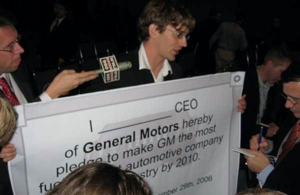 Activist Mike Hudema with a commitment to fuel efficiency that he unsuccessfully tried to get the CEO of General Motors to sign